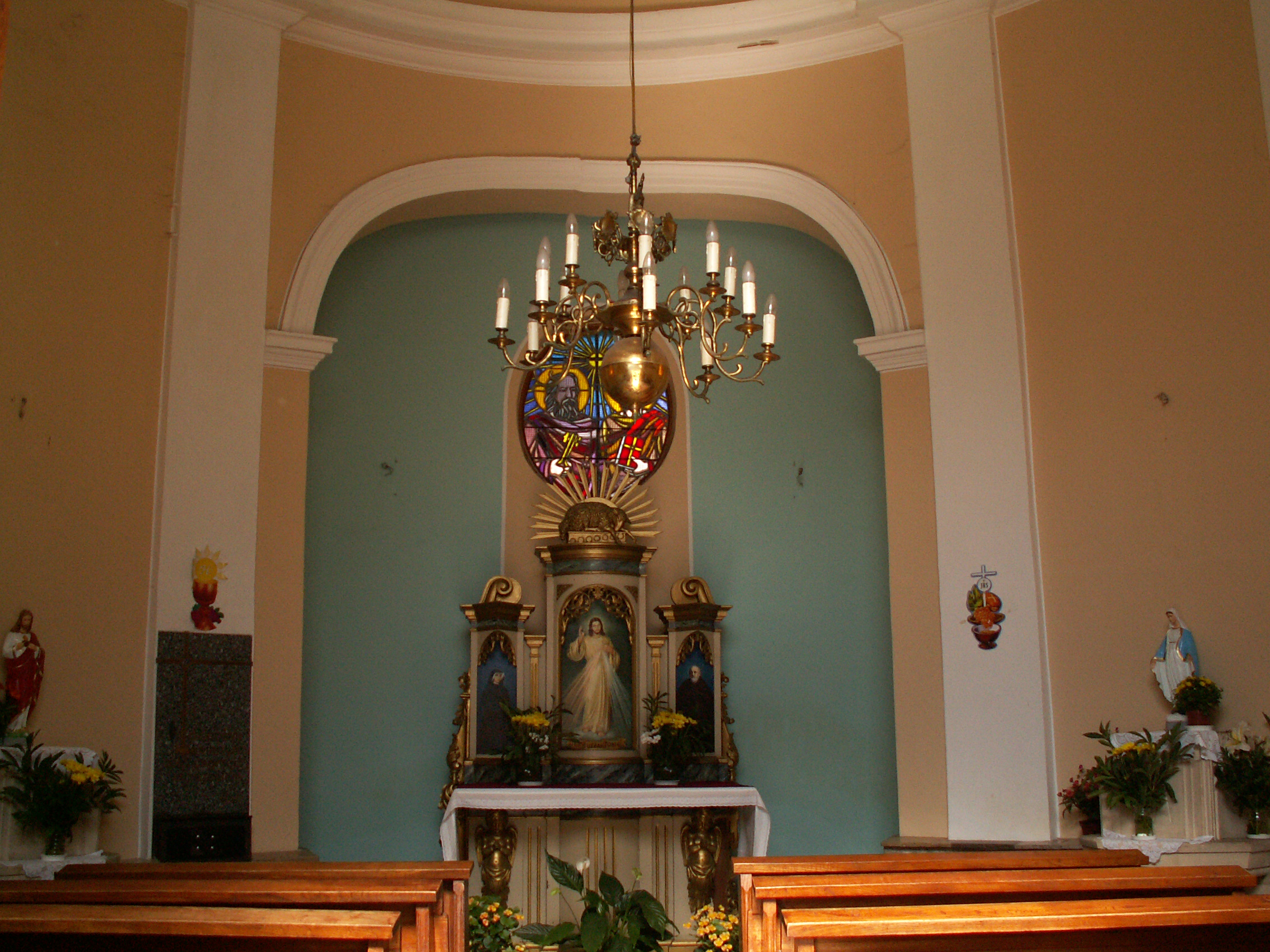 StPeter and StPaul Chapel, 13 Madalinskiego street, Dębniki, Krakow, Poland